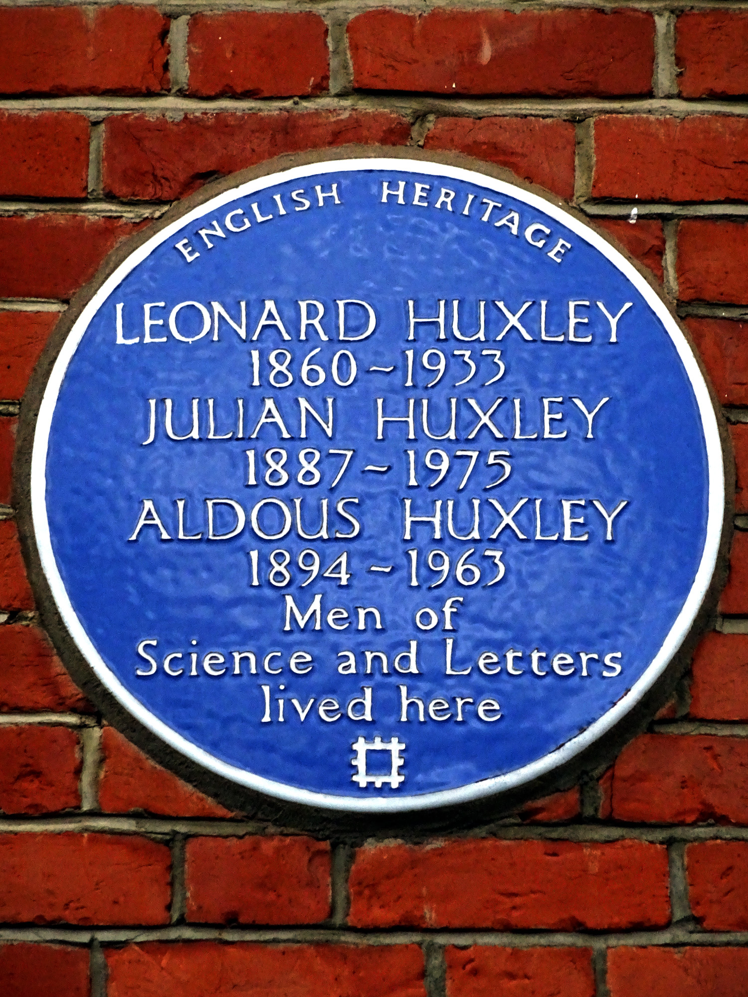 Blue plaque erected in 1995 by English Heritage at 16 Bracknell Gardens, Hampstead, London NW3 7EB, London Borough of Camden